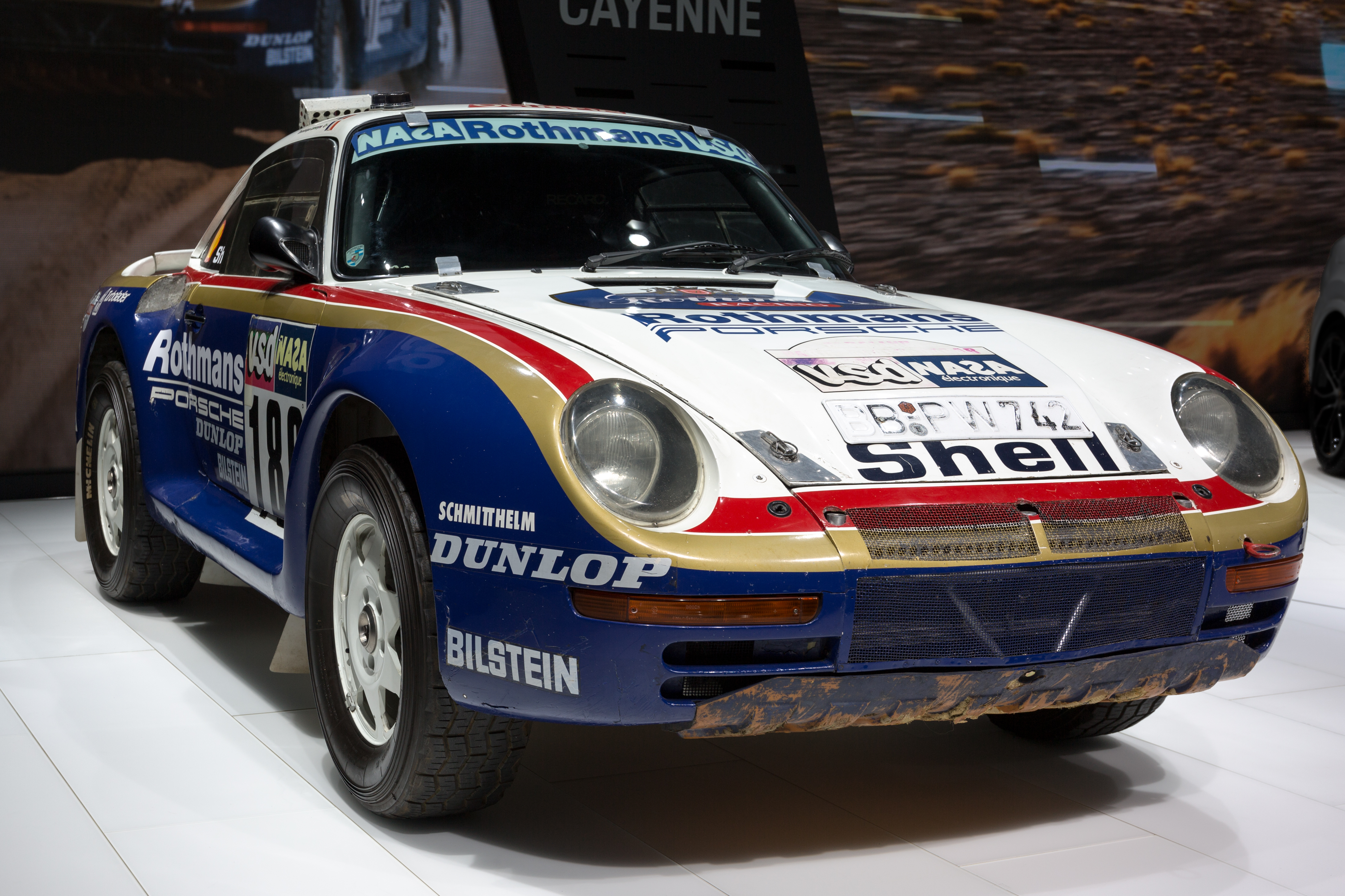 Porsche 959 Dakar, IAA 2017